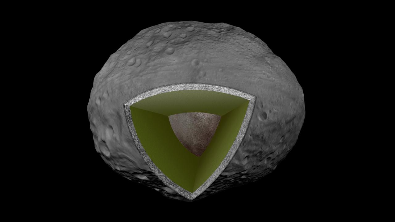 This artist's concept shows the internal structure of the giant asteroid Vesta, based on data from NASA's Dawn mission. Dawn shows that Vesta has an iron core that is about 68 miles (110 kilometers) in radius, suggesting that Vesta completely melted in its early history, allowing iron to sink to form the core and producing a basaltic crust. This illustration shows the innermost core in brown, the mantle in green and the crust in gray.